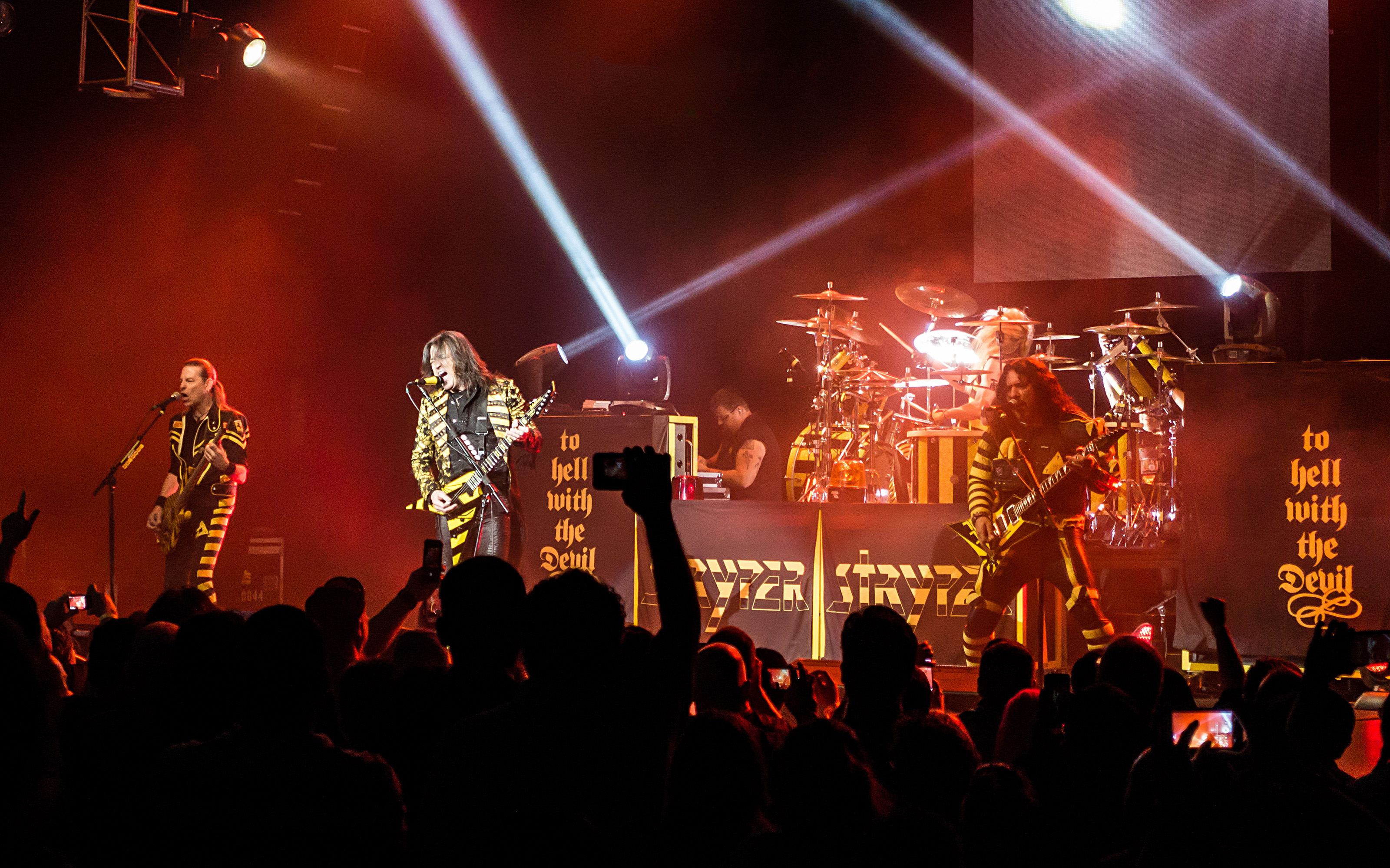 Stryper at City National Grove of Anaheim